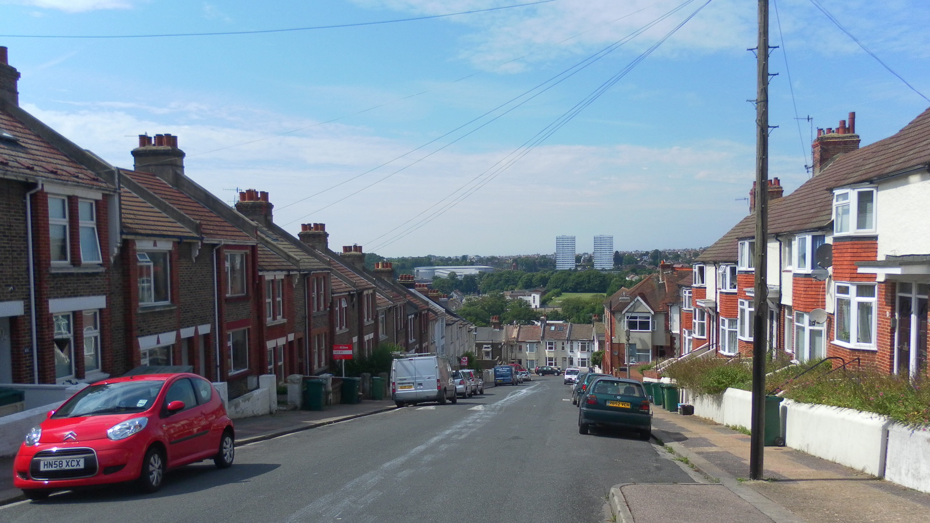 Views of Brighton #10. This view looks due west down Ladysmith Road in the Bear Road neighbourhood, from the junction with Kimberley Road (off camera to the right). The road at the bottom is Ewhurst Road. Clearly visible in the background are the Hollingdean Flats (Dudeney Lodge, right, and Nettleton Court, left). To their left, the small conical-domed red building is the chapel of the old Jewish Cemetery. To its left, the large futuristic-looking structure is the Veolia refuse disposal facility on Hollingdean Lane.